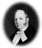 Pierre-Joseph-Olivier Chauveau (1820-1890), canadian politician